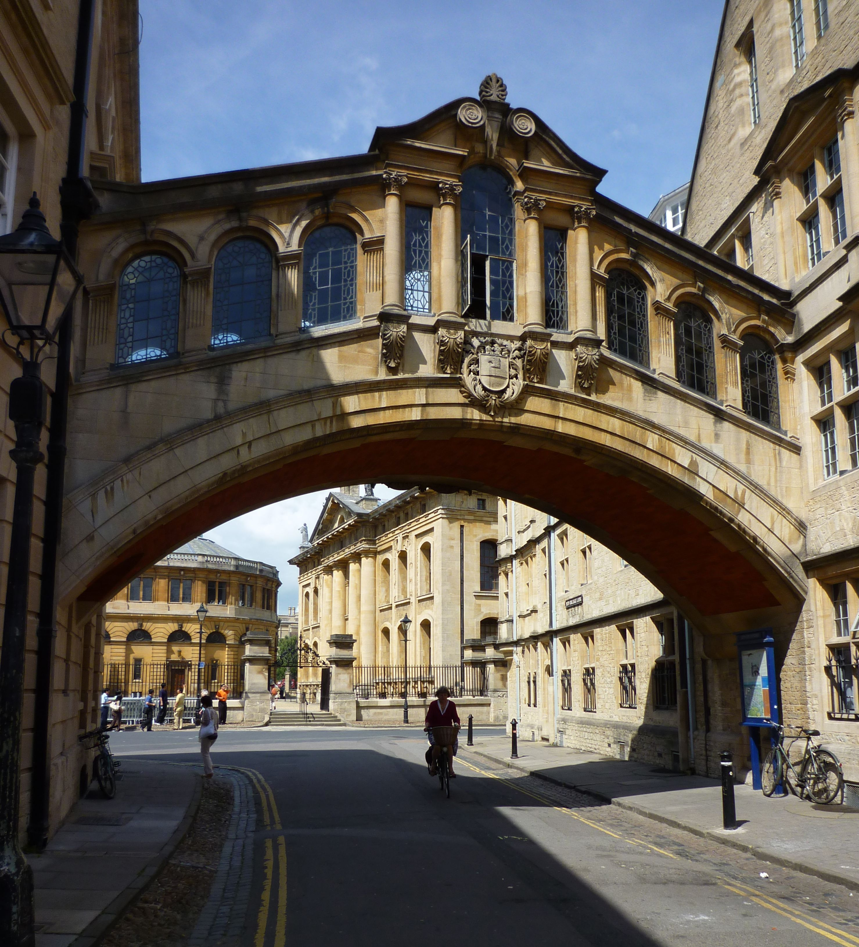 Oxford -Bridge of Sighs- Hertford College, Passes over New College Lane.jpg